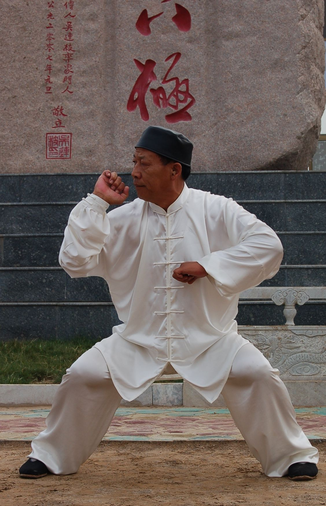 Master Wu LianZhi in the typical stance of Baji Quan style